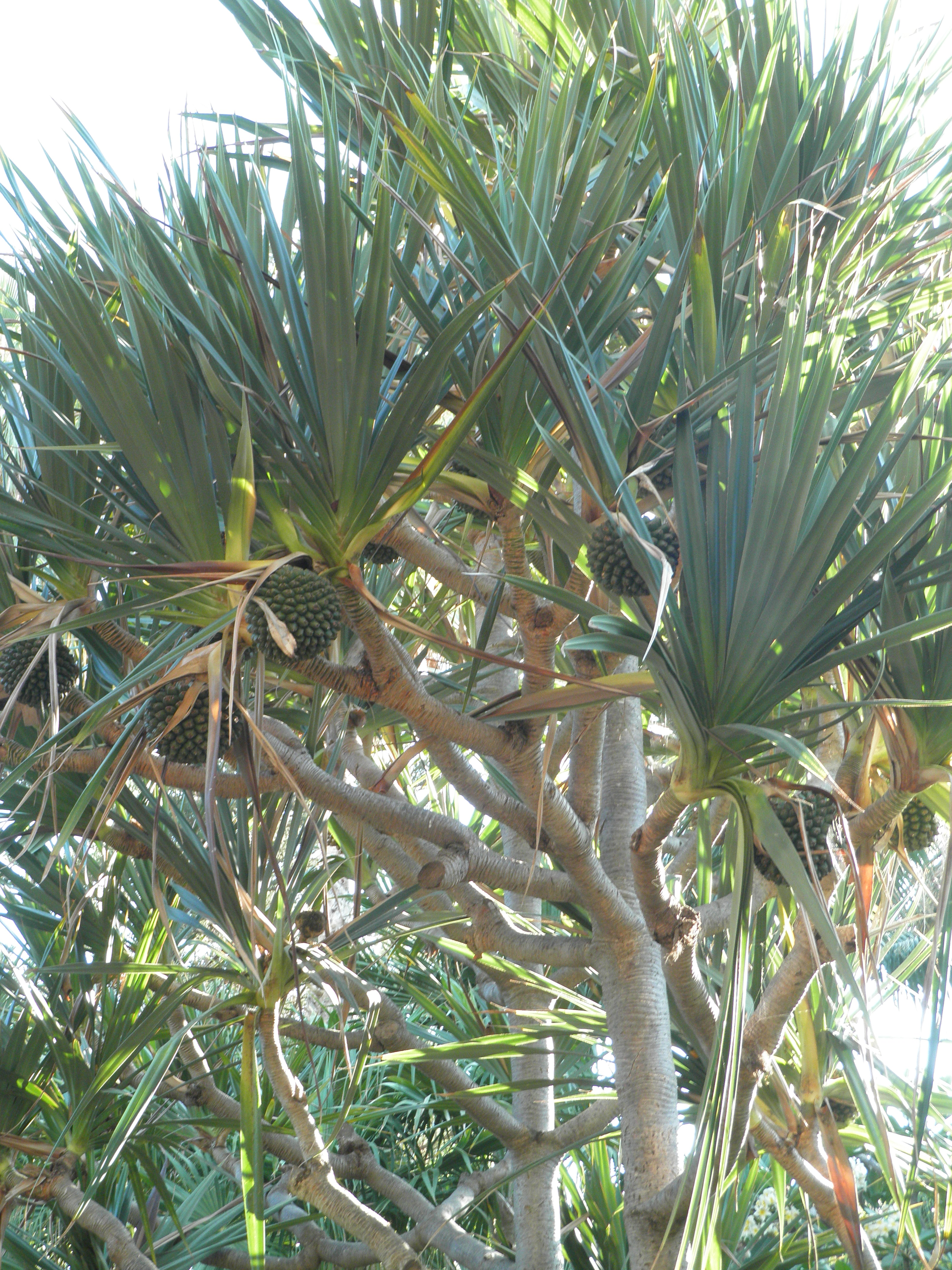 Pandanus utilis at Almuñécar, Spain